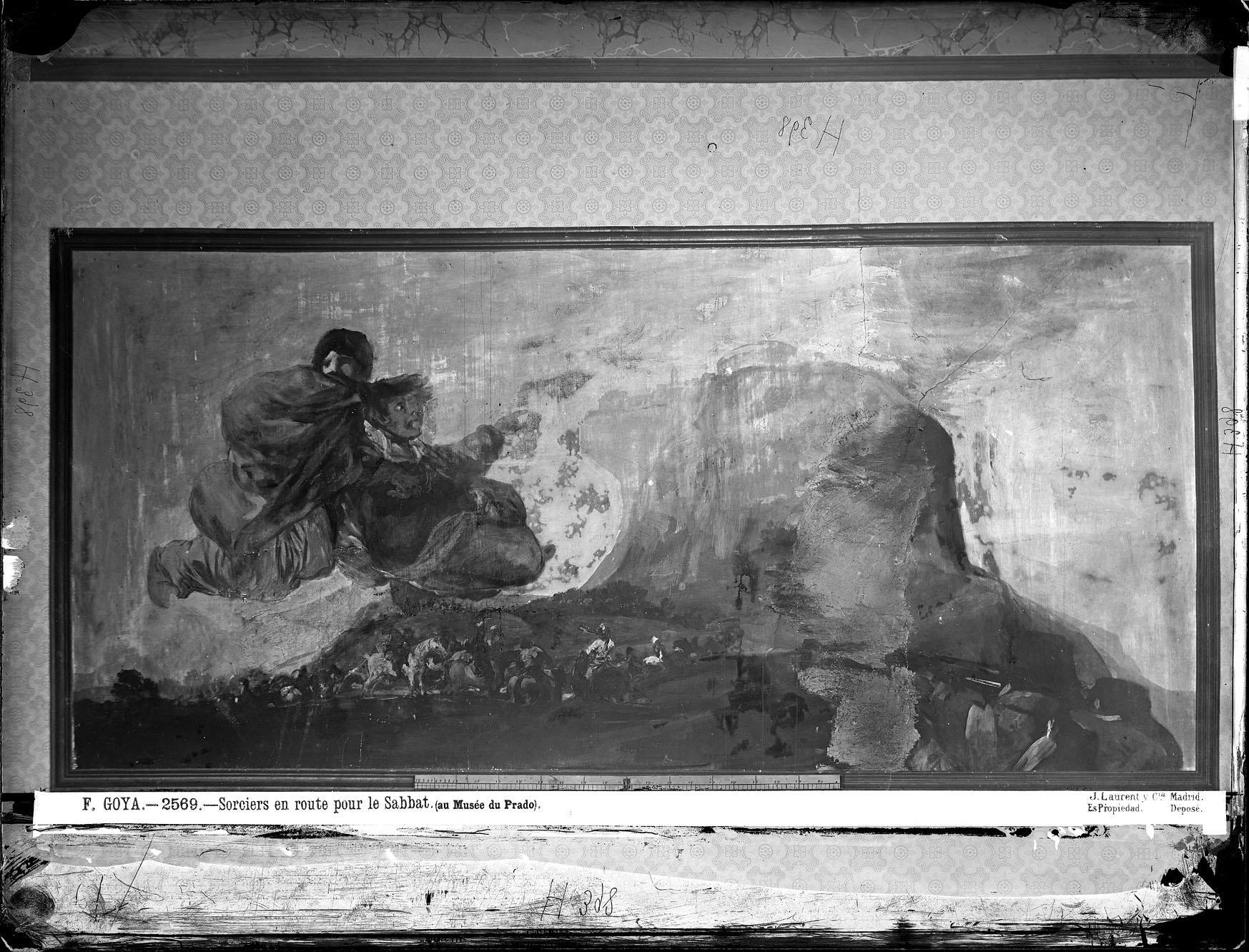 "Asmodea", in 1874, at the Quinta de Goya. Photo by J. Laurent, in a wall of the old house of Goya. Series of Black Paintings, before being transferred to canvas. You can see large cracks, repainting, and extensive faults filled with plaster. The image was obtained by scanning the original glass negative, wet collodion, format 27 x 36 centimeters, which is preserved in the Archives Ruiz Vernacci. IPCE Photo Library. Madrid.